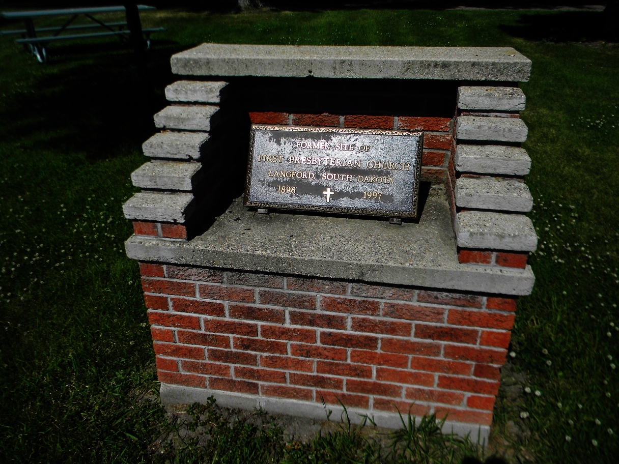 First Presbyterian Church of Langford Structure was no longer at site on this date. Marker is located in the SE corner of the city park. There is a shuttered church building two blocks south at Lindley & Walnut.